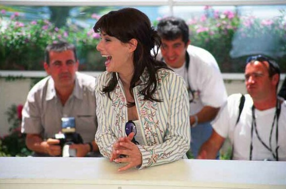 Bullock Sandra at Cannes in 2002. My own picture. Created by Rita Molnár 2002.